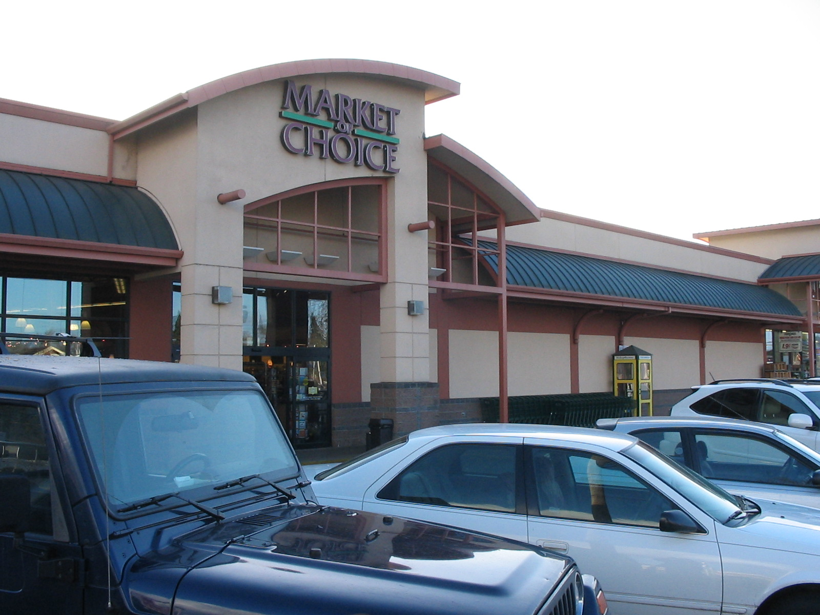 The Franklin Boulevard Market of Choice store in Eugene, Oregon